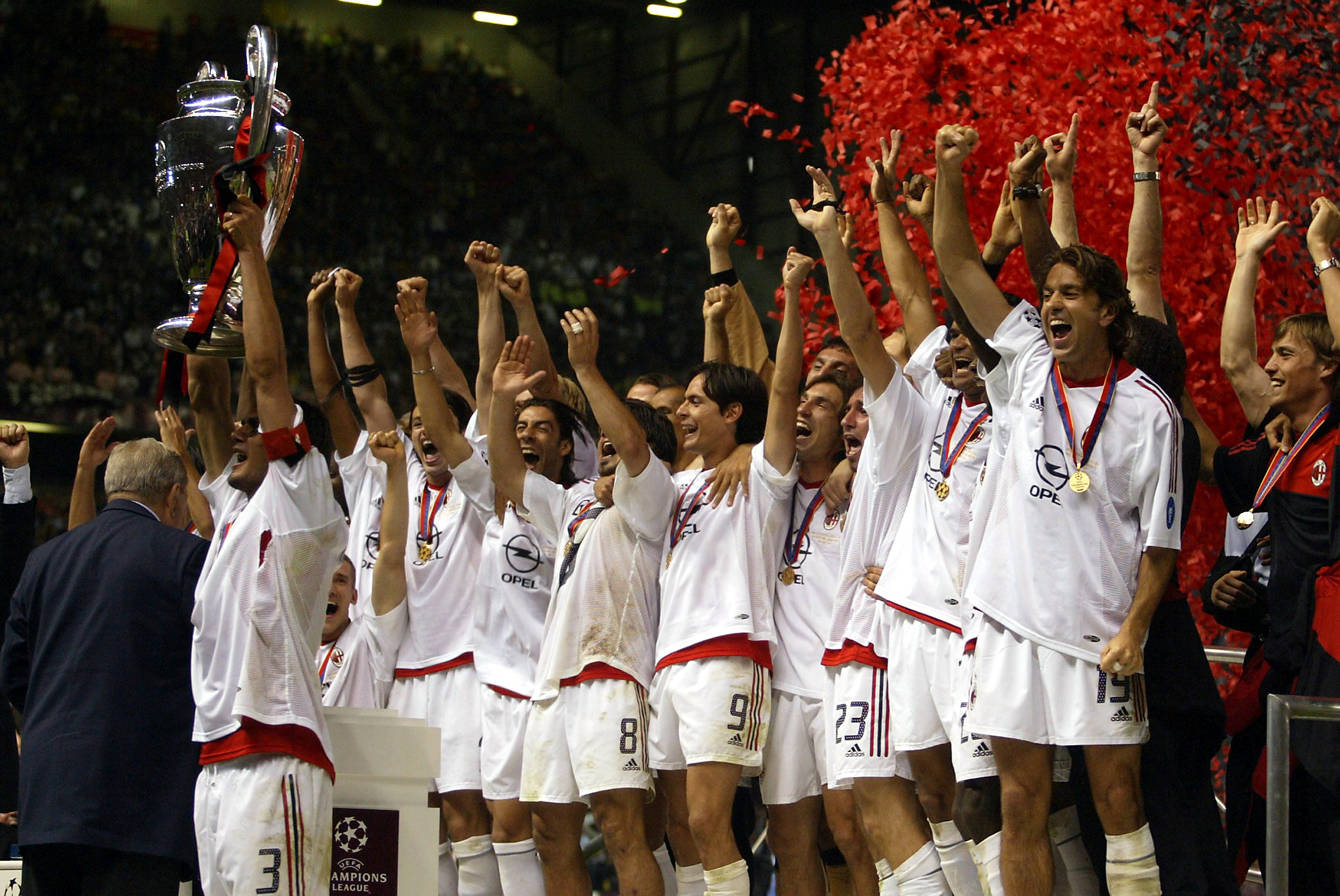 A.C. Milan, the winners of the 2002–03 UEFA Champions League, lift the European Cup. They defeated Juventus F.C. 3–2 on penalties at Old Trafford in Manchester, England.